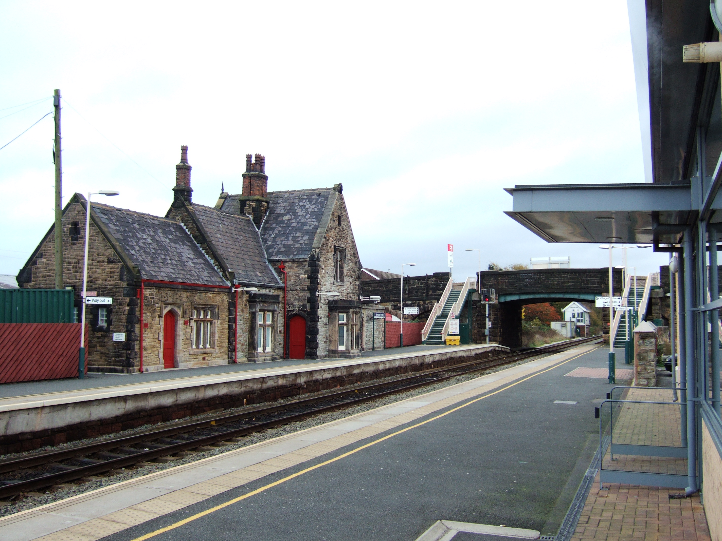 Burscough Bridge railway station, in Burscough, Lancashire, England.